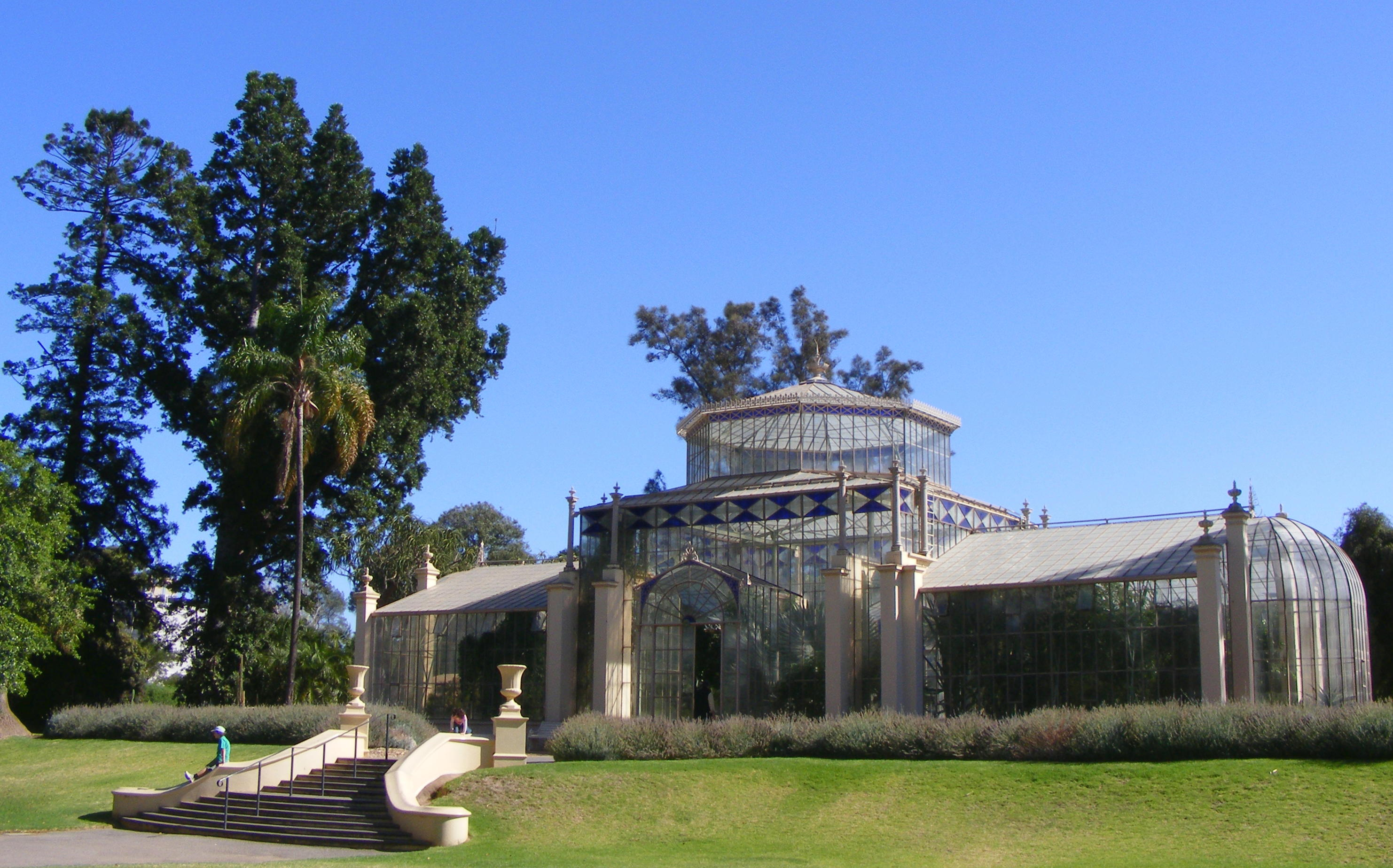 Oblique view of the Palm (or Tropical) house, Adelaide Botanic Gardens, South Australia